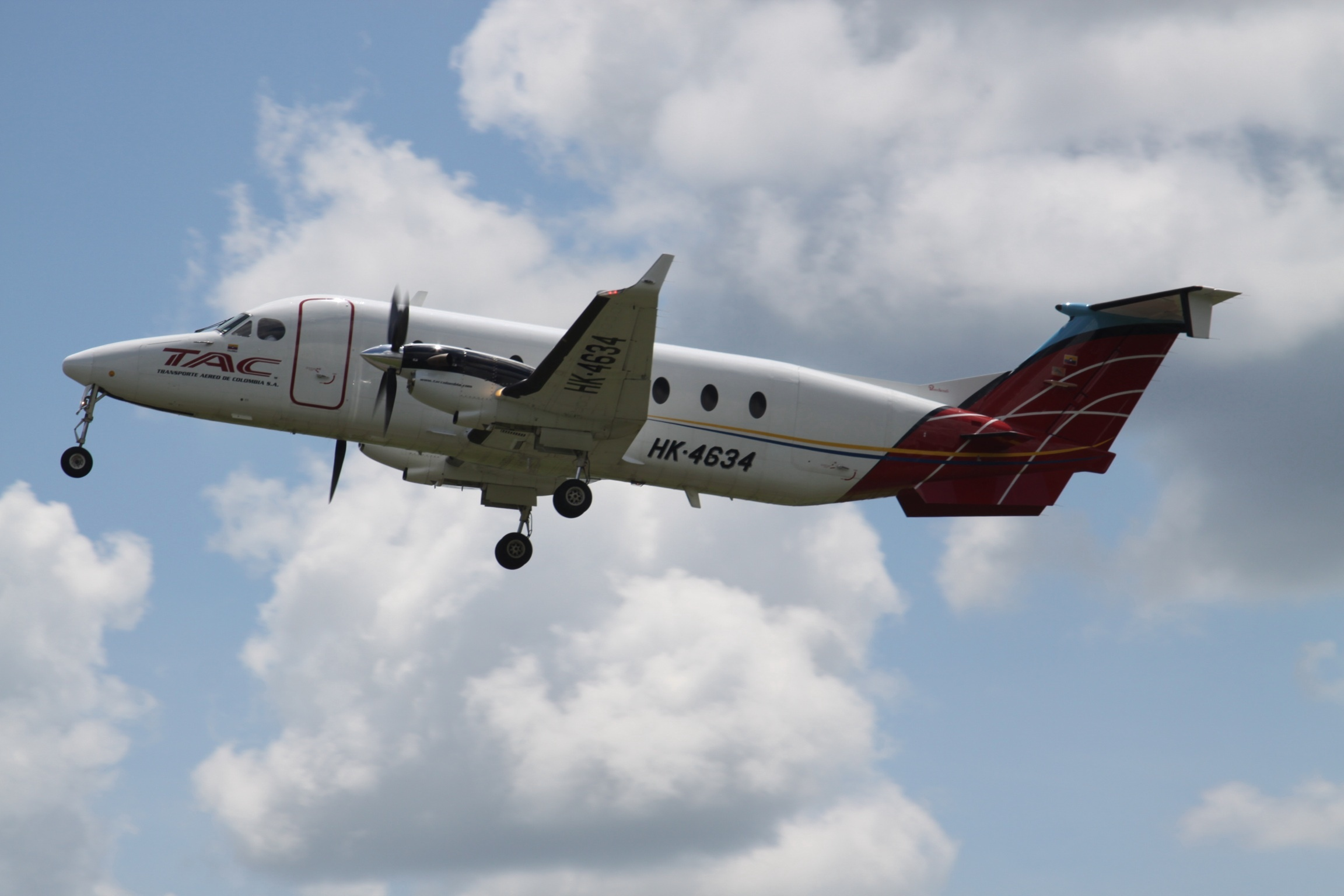 At Villavicencio La Vanguardia